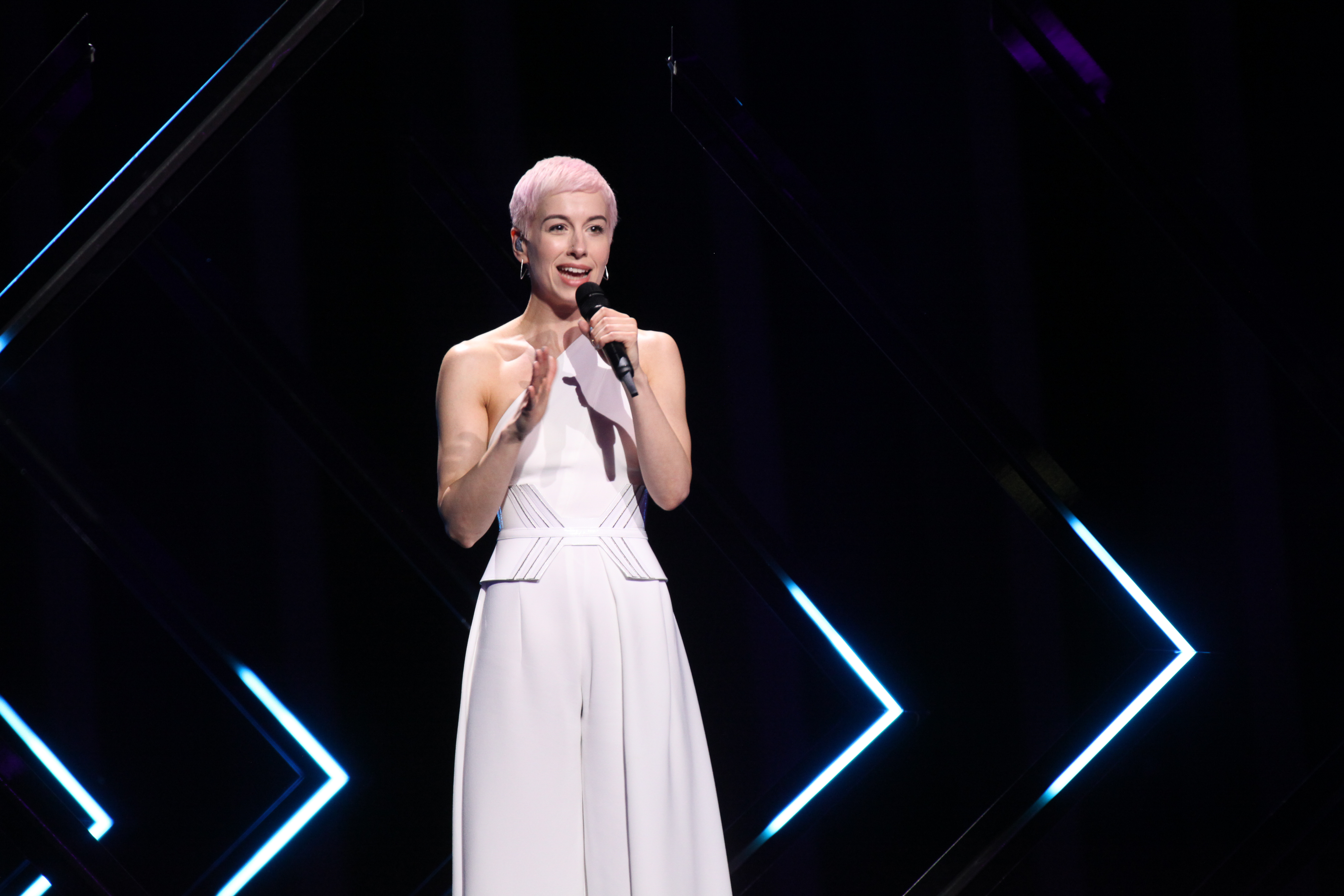 SuRie representing the United Kingdom with the song "Storm" during a rehearsal before the grand final of the Eurovision Song Contest 2018 in Lisbon.